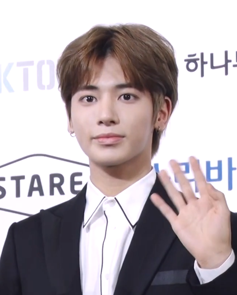 Kang Tae-hyun at Soribada Awards on August 23, 2019.